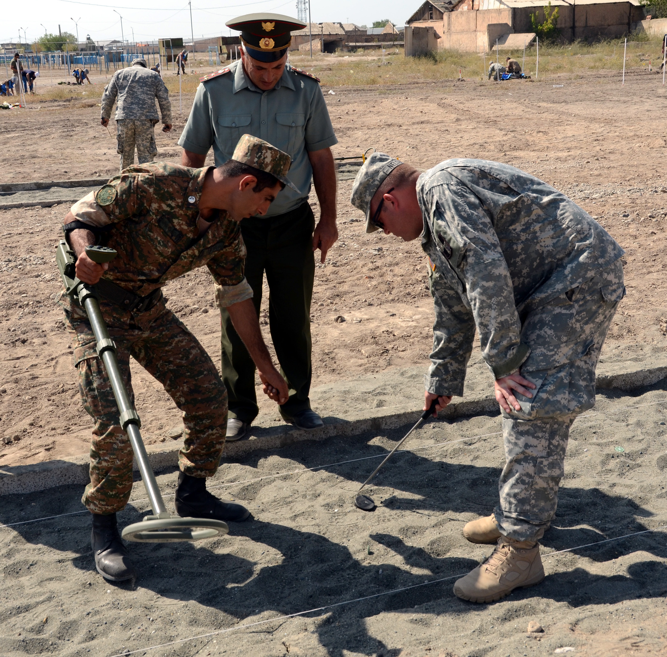 SFC Jacob Nelson, a Wichita native with the Kansas National Guard, uncovers the simulated mine on a metal detector lane as part of a humanitarian demining action training course taught by soldiers of the Kansas National Guard and a civilian representative from the U.S. Humanitarian Demining Training Center. Kansas National Guardsmen and the HDTC representative are instructing Armenian peacekeepers and engineer battalions on international demining standards as part of the Humanitarian Mine Action program and will assist the Armenian government in developing a national standard operating procedure for demining.